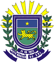 Coat of arms of the state of Mato Grosso do Sul, Brazil.